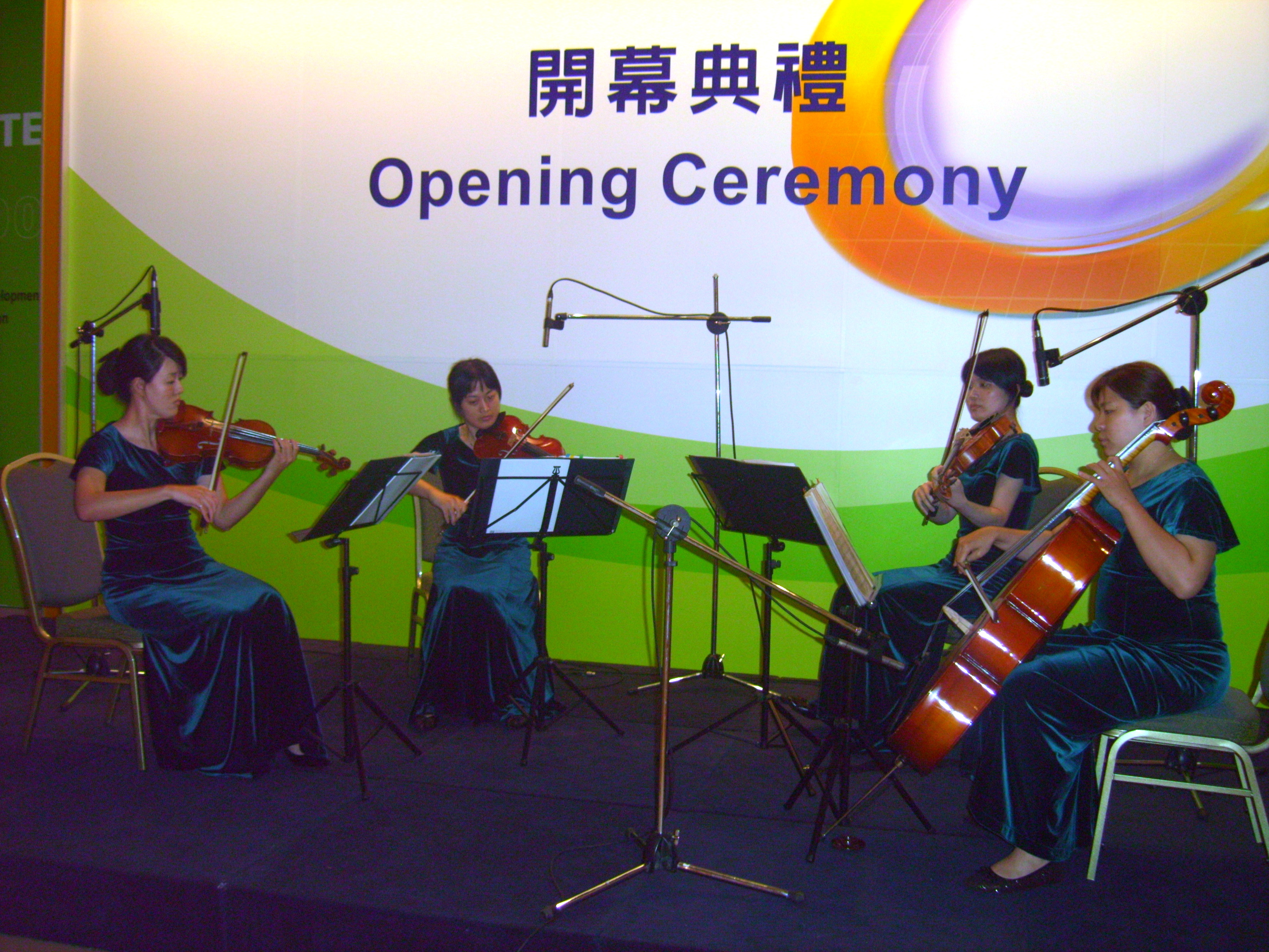 2007 COMPUTEX Taipei: Evergreen Symphony Orchestra performed some Taiwanese traditional songs.中文（台灣）: 2007台北國際電腦展的歡迎酒會，長榮交響樂團進行台灣傳統民謠的演奏。